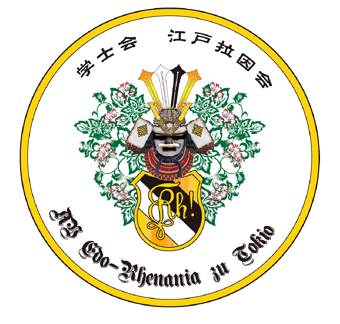 Crest of the Japanese student fraternity AV Edo-Rhenania zu Tokio